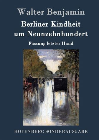 Berliner Kindheit by Walter Benjamin book cover. The layout includes Lesser Ury's Berliner Straßenszene (1910).